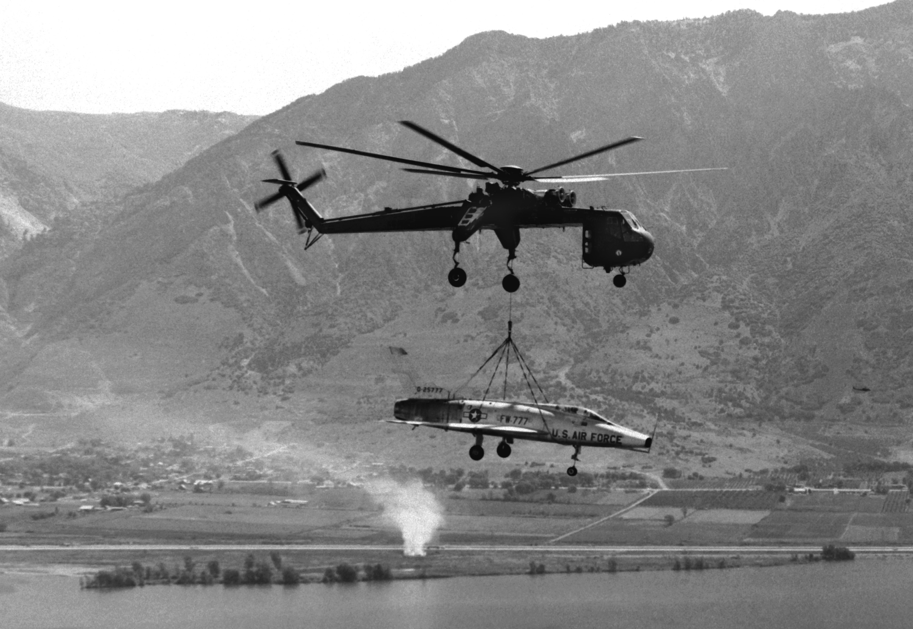 A Sikorsky CH-54 helicopter transports a U.S. Air Force North American F-100A-5-NA Super Sabre aircraft on its last flight. The aircraft, from 388th Tactical Fighter Wing at Hill Air Force Base, Utah (USA), was placed on static display near the headquarters building at Hill AFB in 1979.